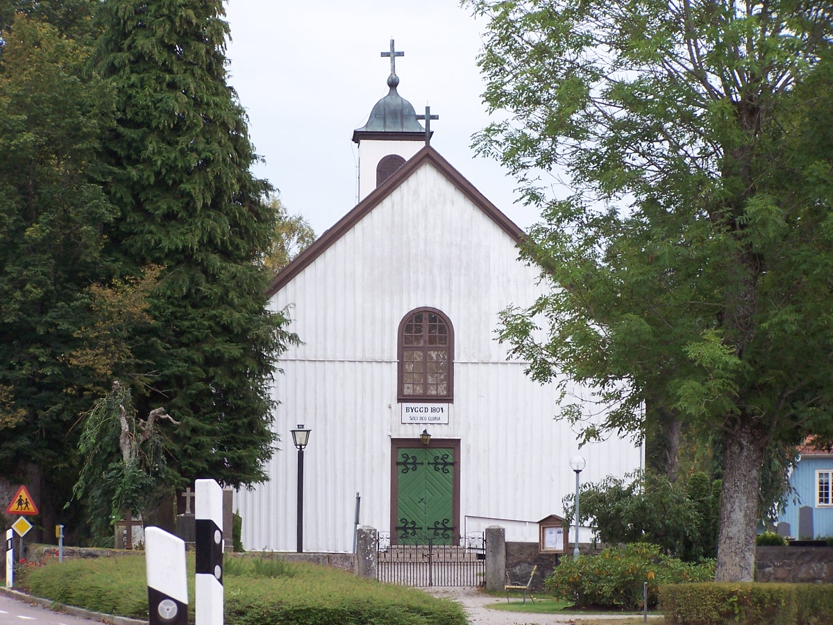 Gullabo church, Torsås, Sweden